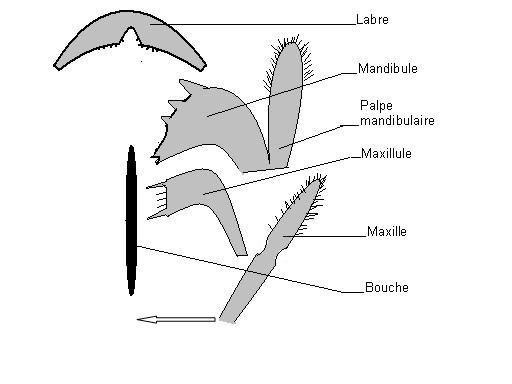 diagram of a barnacle mouthparts